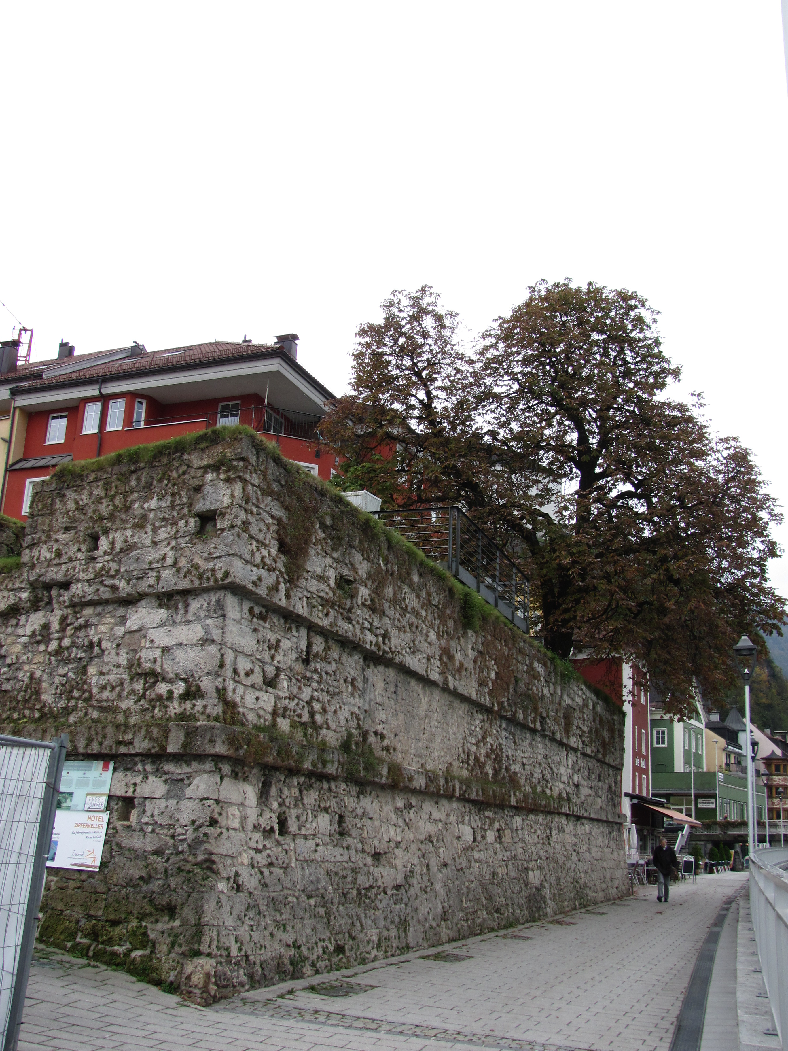 Medieval City Wall, City of Kufstein, Austria